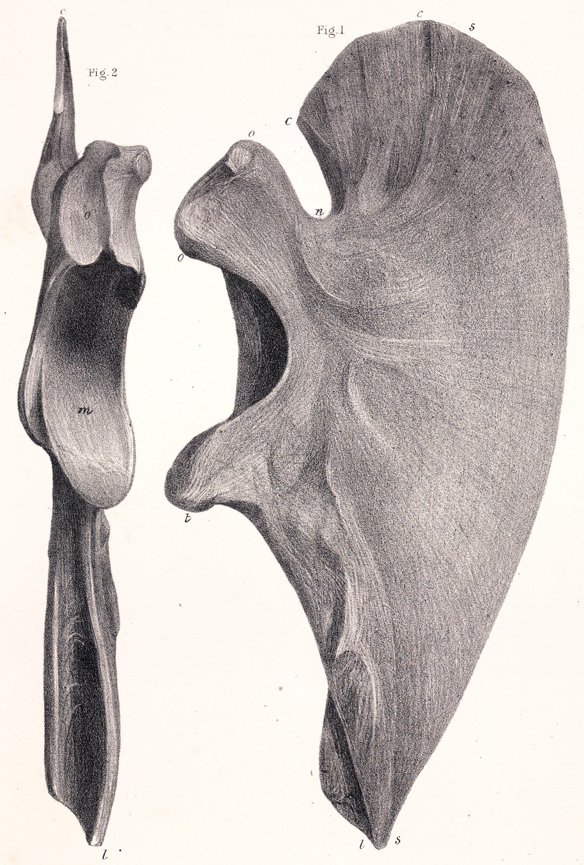 Left ilium (i.e. the left dorsal element of the pelvis) of Megalosaurus „from the Oolitic Slate, of Stonesfield, Oxfordshire“ (i.e. the Stonesfield Slate of the Taynton Limestone Formation, middle Bathonian), in lateral (Fig. 1) and ventral (Fig. 2) views.Note that in the original source (Owen, 1849–1884; see below) this bone was erroneously identified as coracoid, i.e. an element of the pectoral girdle – this is why the bone is shown turned by 90 degrees clockwise, i.e. its ‘upper’ end is actually the anterior (cranial) end and its ‘lower’ end is actually the posterior (caudal) end.Meaning of letters according to modern nomenclature: b = ischial peduncle, c = rim of preacetabular process of ilium, l = tip of postacetabular process of ilium (with pronounced brevis fossa on ventral side of postacetabular process), m = dorsal surface of acetabulum, n = preacetabular notch, o = pubic peduncle, s--s = dorsal rim of iliac blade.